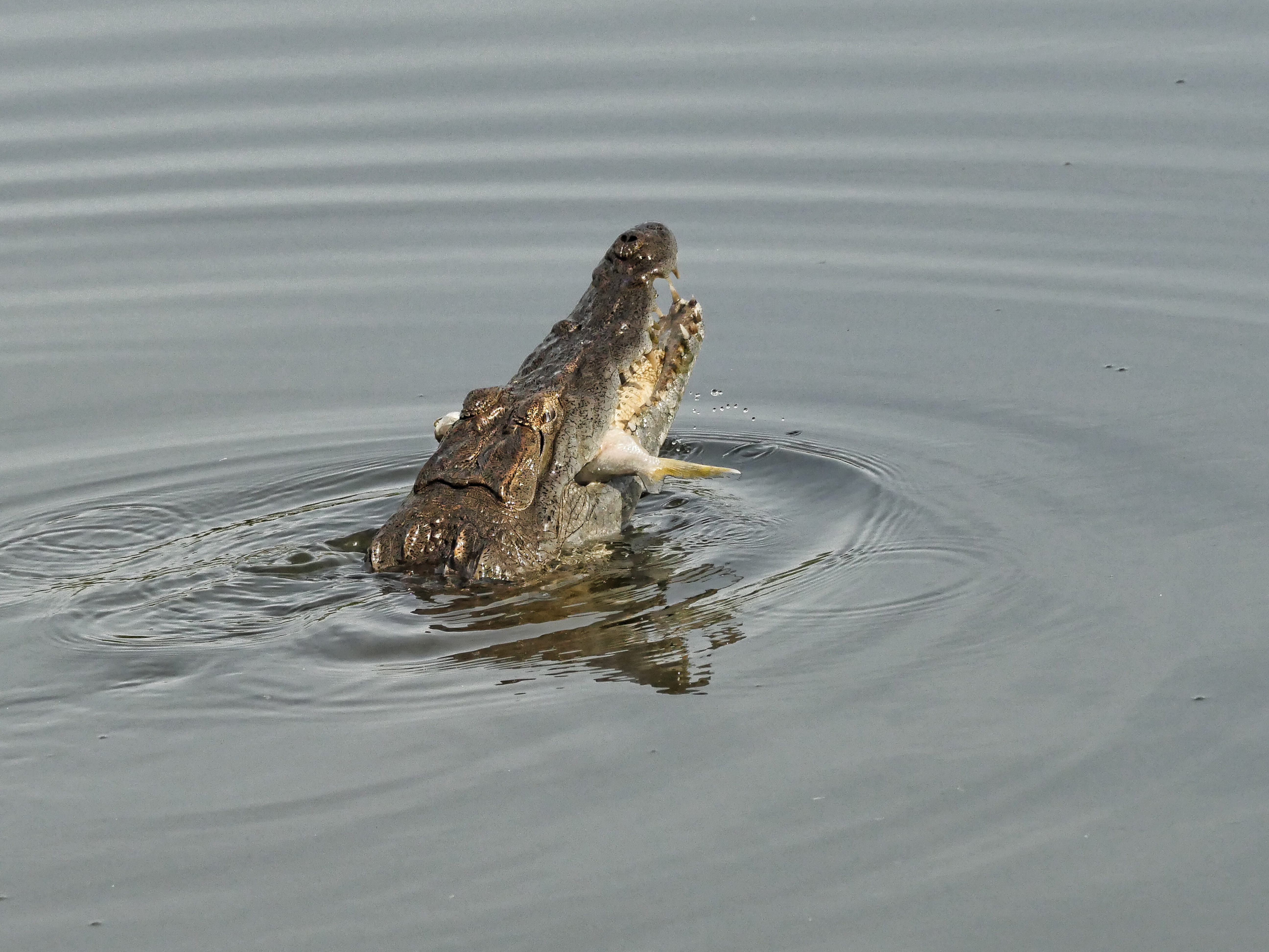 Croc eating fish